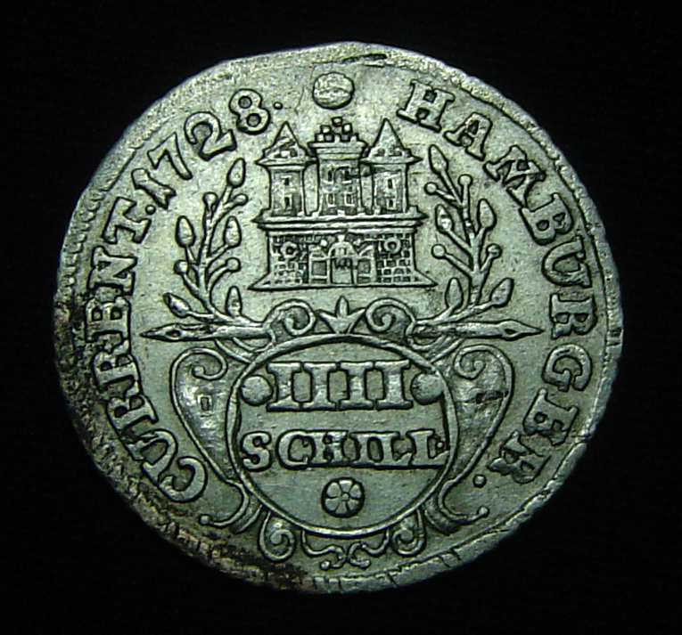 Revers of a 1728 Schilling Coin from Hamburg. In 1725 the Hamburg government decided to introduce a new currency. 34 Mark Krurant coins were to be struck from one fine Cologne mark of silver, i.e., from approx. 235 g. 16 Schillings define one Mark Kurant, and coins of 2, 4, 8, 16 and 32 Schillings were issued. If the displayed 4 Schilling coin, 136 were struck from one fine Cologne mark of silver. At a fineness of 562,5/1000, the gross mass of the coin is nominally 3.05 g. (source: Kurr Jaeger & Jens-Uwe Rixen (1971) Nordwestdeutschland - Ostfriesland, Oldenburg, Jever, Kniphausen, Bremen, Hamburg, Lübeck, Schleswig-Holstein, Lauenburg. Band 6 der Reihe "Die Münzprägungen der deutschen Staaten vor Einführung der Reichswährung". Münzen- und Medaillen A.G., Basel, S. )